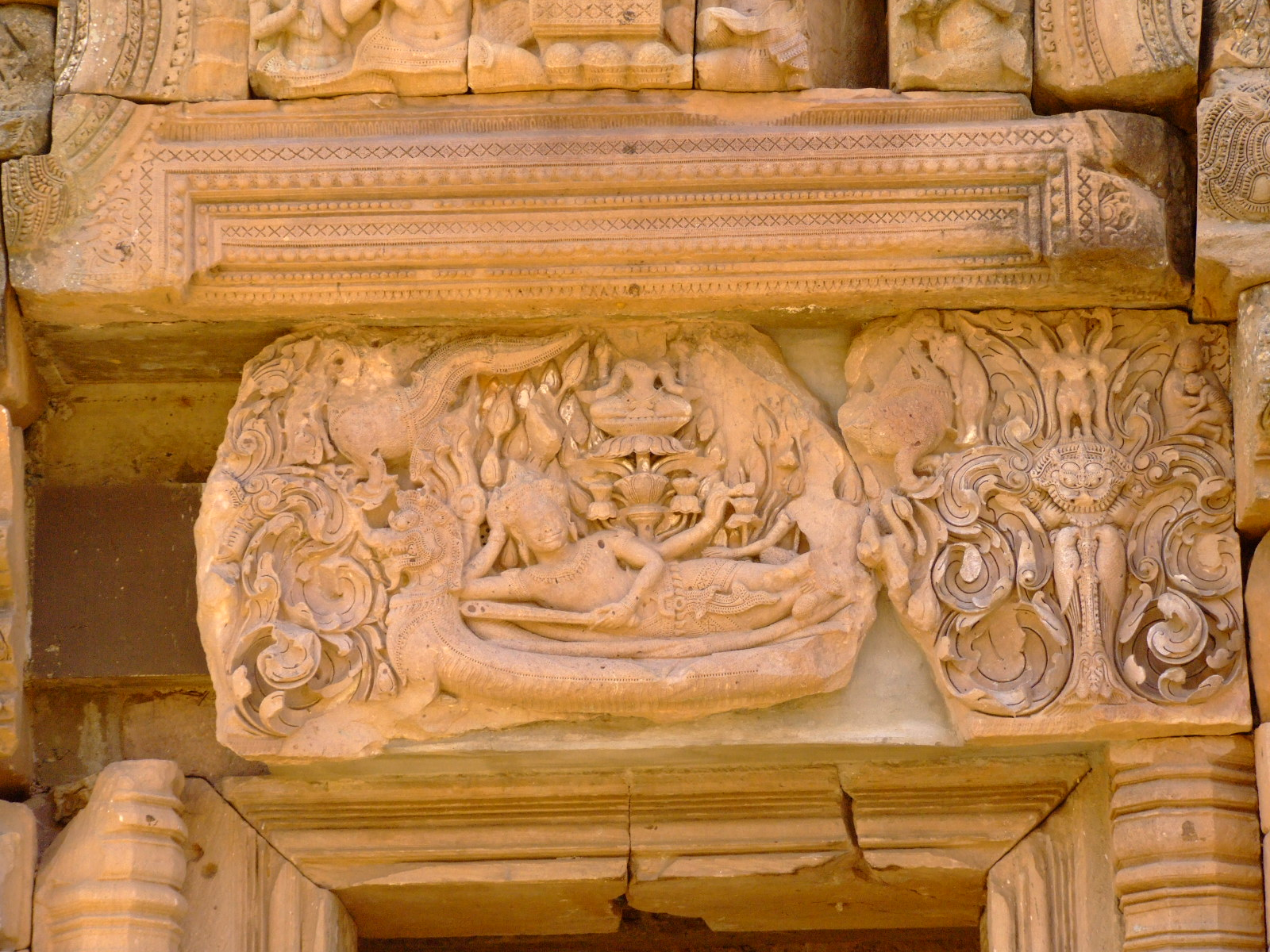 Vishnu (in Thai: Phra Narai) asleep in the cosmic ocean on the back of a great serpent deity known as a Naga. From his navel sprouts a lotus with one thousand petals. In the middle of the lotus sits Brahma, the creator. Between 1961 and 1965 persons unknown illegally removed and exported this stone-work. Subsequent investigations showed that it had been donated to the Oriental Art Institute in Chicago. Only in December 1988 did the Alsdorf Institute return the lintel to Phanom Rung after a long and vigorous campaign by the Thai people.